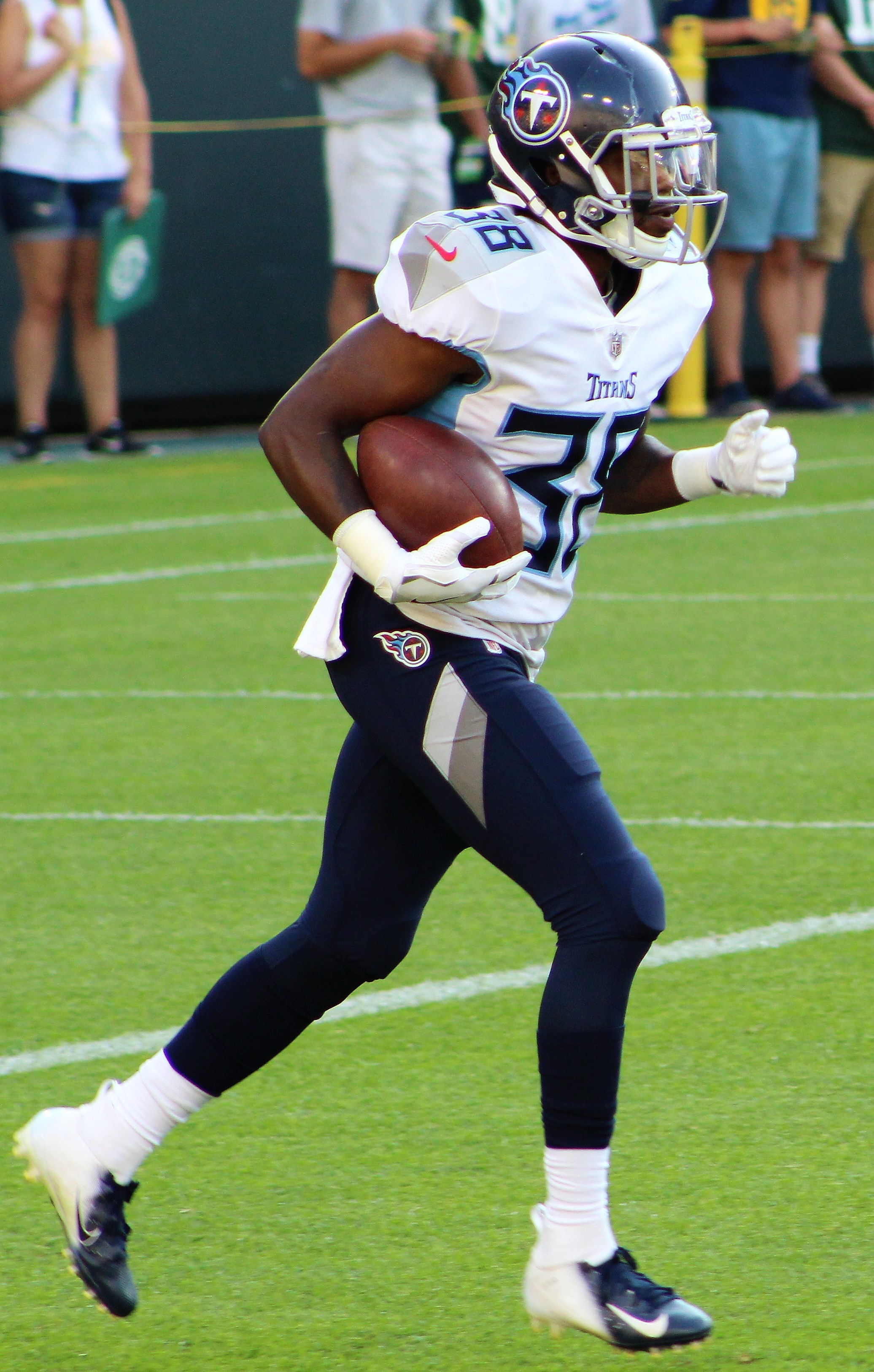 Akrum Wadley, Tennessee Titans at Green Bay Packers (Preseason), August 9, 2018